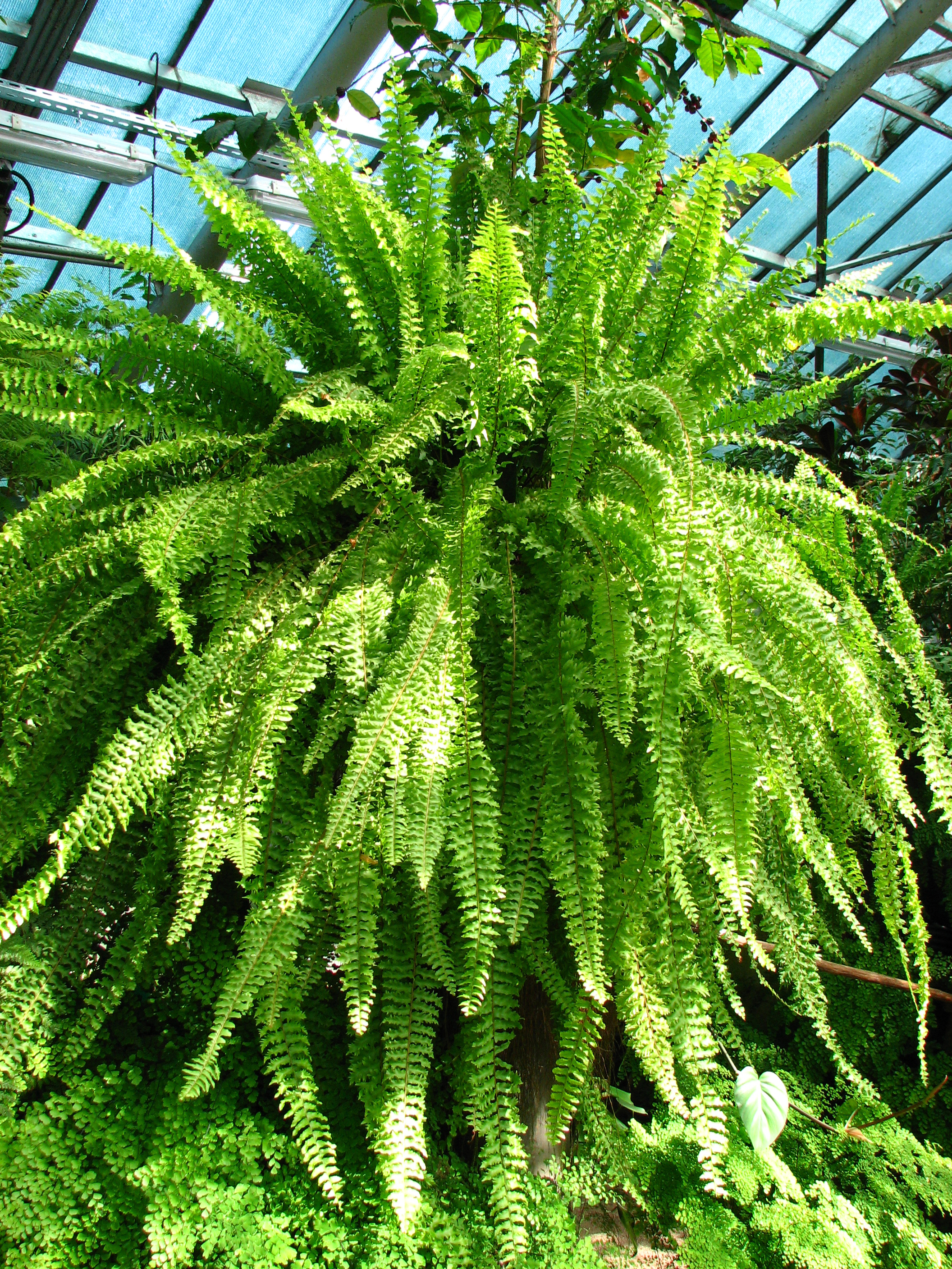 Greenhouses of the Botanical garden (Saint Petersburg).